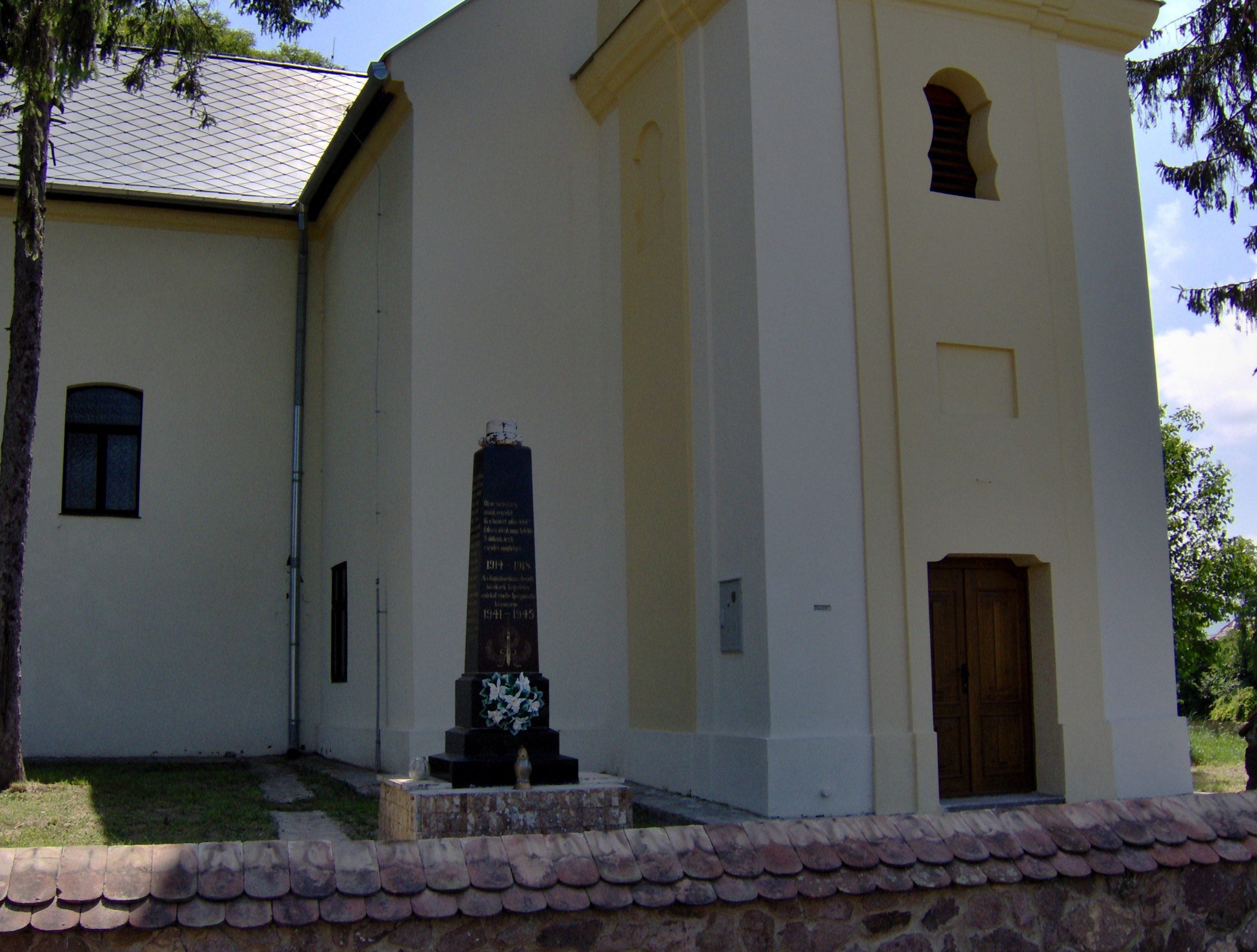 Pastovce, ref. church after restoration